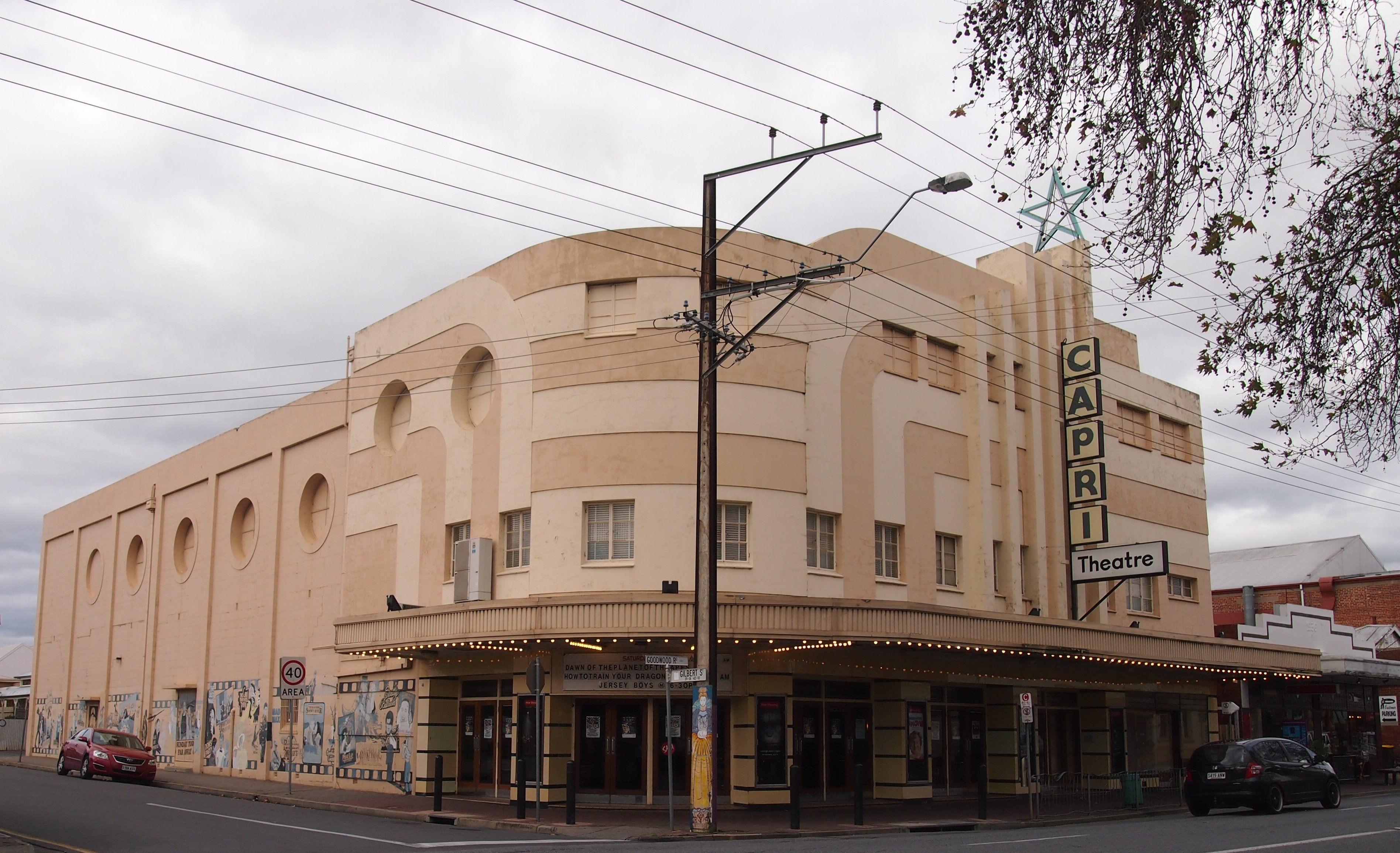 Capri Theatre, Goodwood Road, Goodwood, built in 1930 Original filename = P7193363.JPG